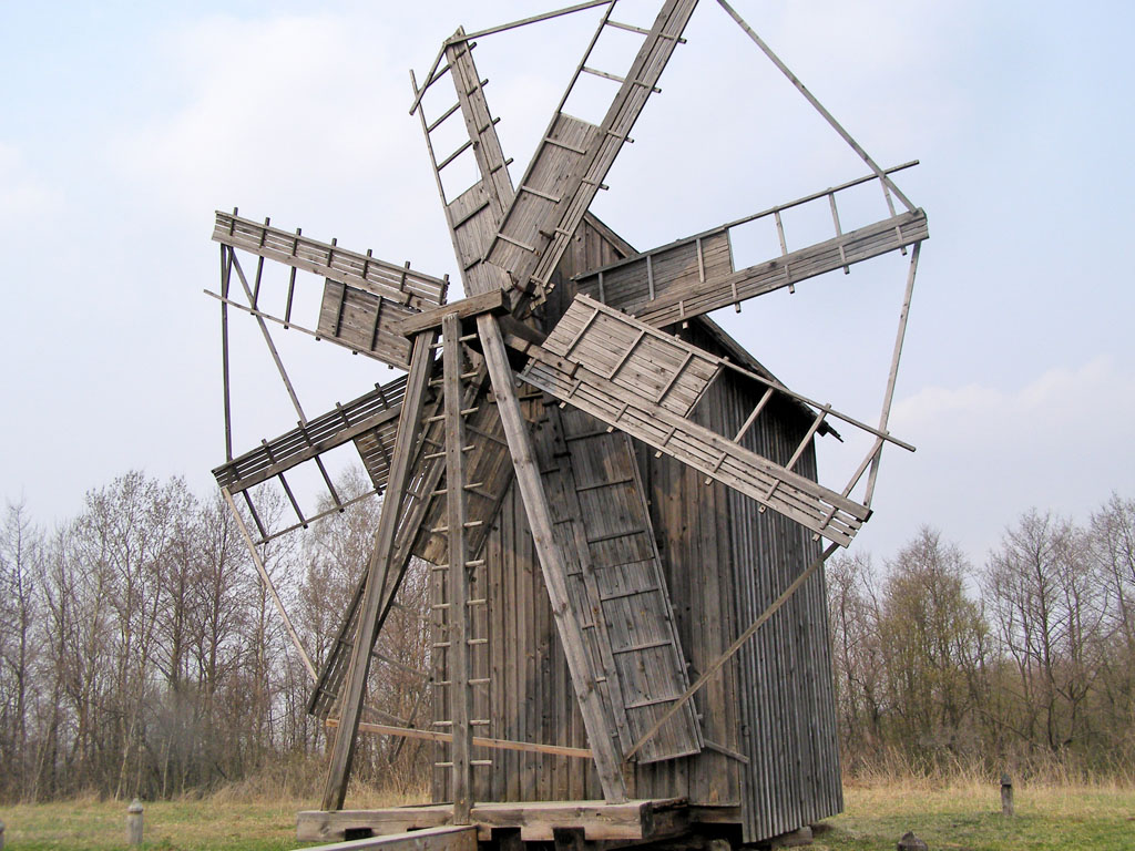 Windmill in the Belarusian State Museum of Folk Architecture and mode of life